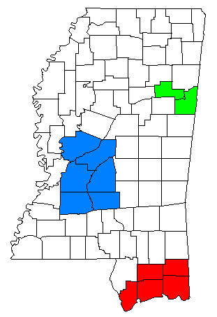 Map of Mississippi's Combined Statistical Areas; created with the GIMP. Made by User:Acntx.